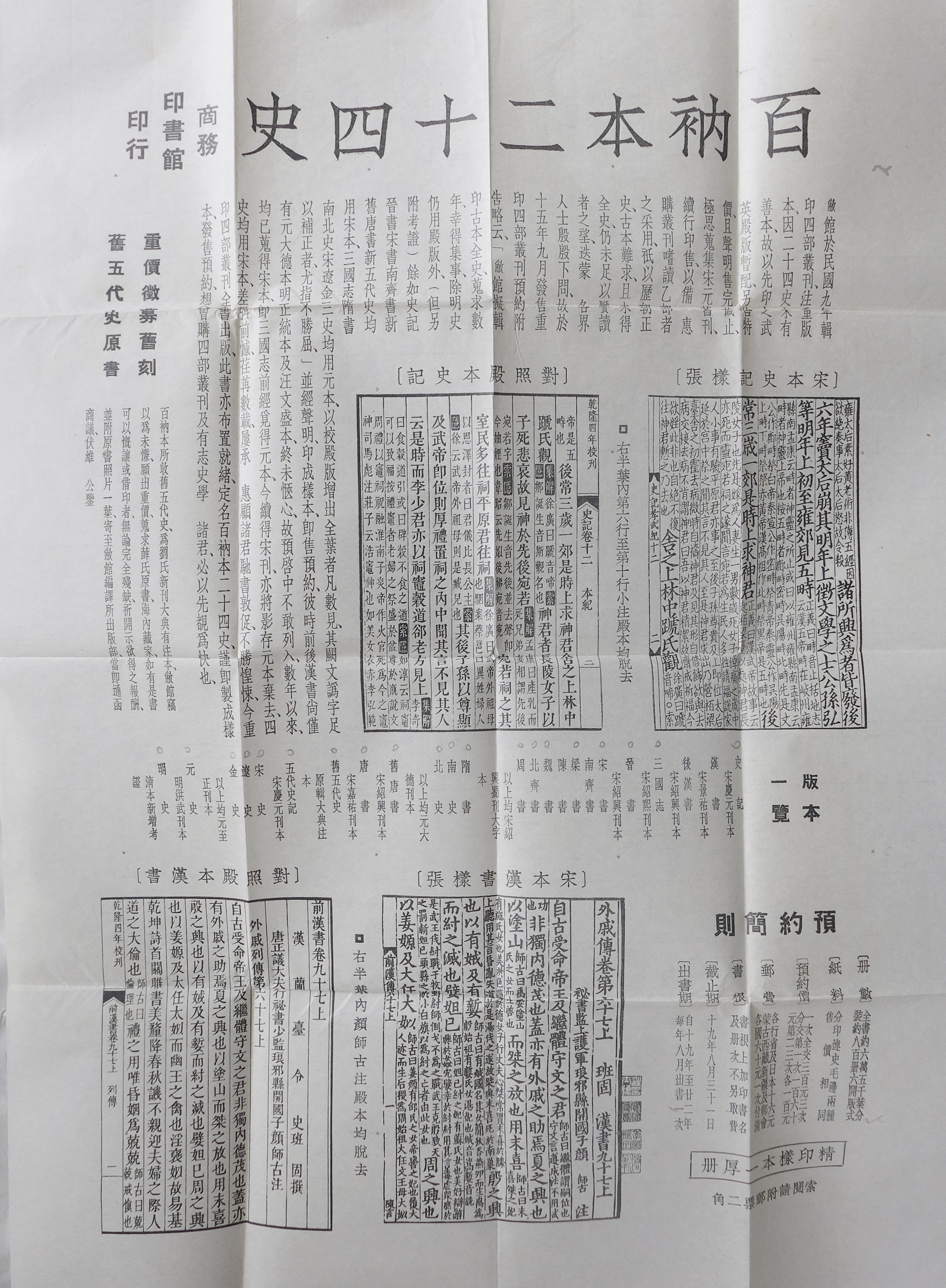 Advertising of Twenty-Four Histories publised by Commercial Press in 1930, Shanghai Category:Books of the history of China